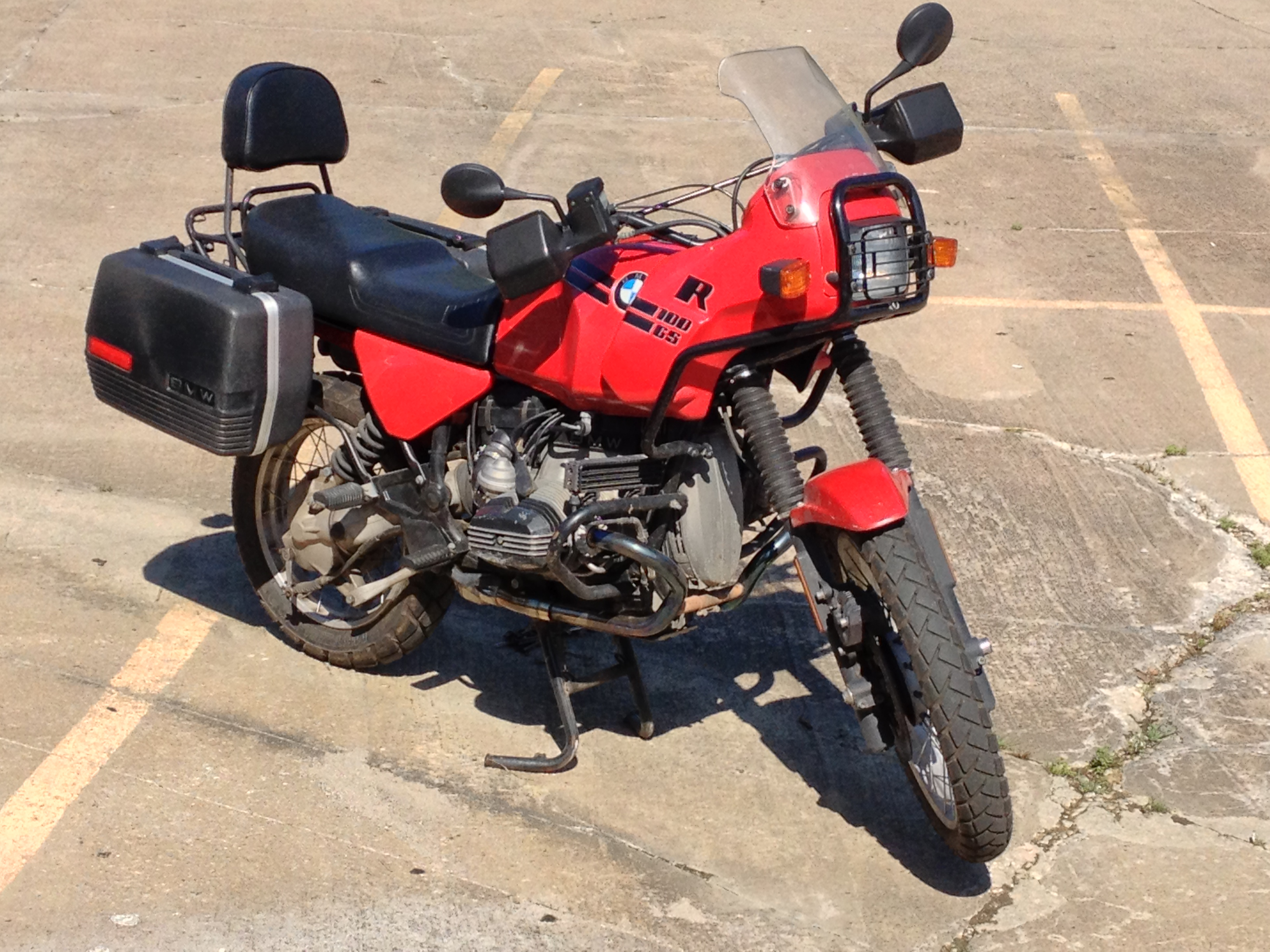 BMW R100 GS Motorcycle. Seen in Fayetteville Arkansas USA, July 2013.